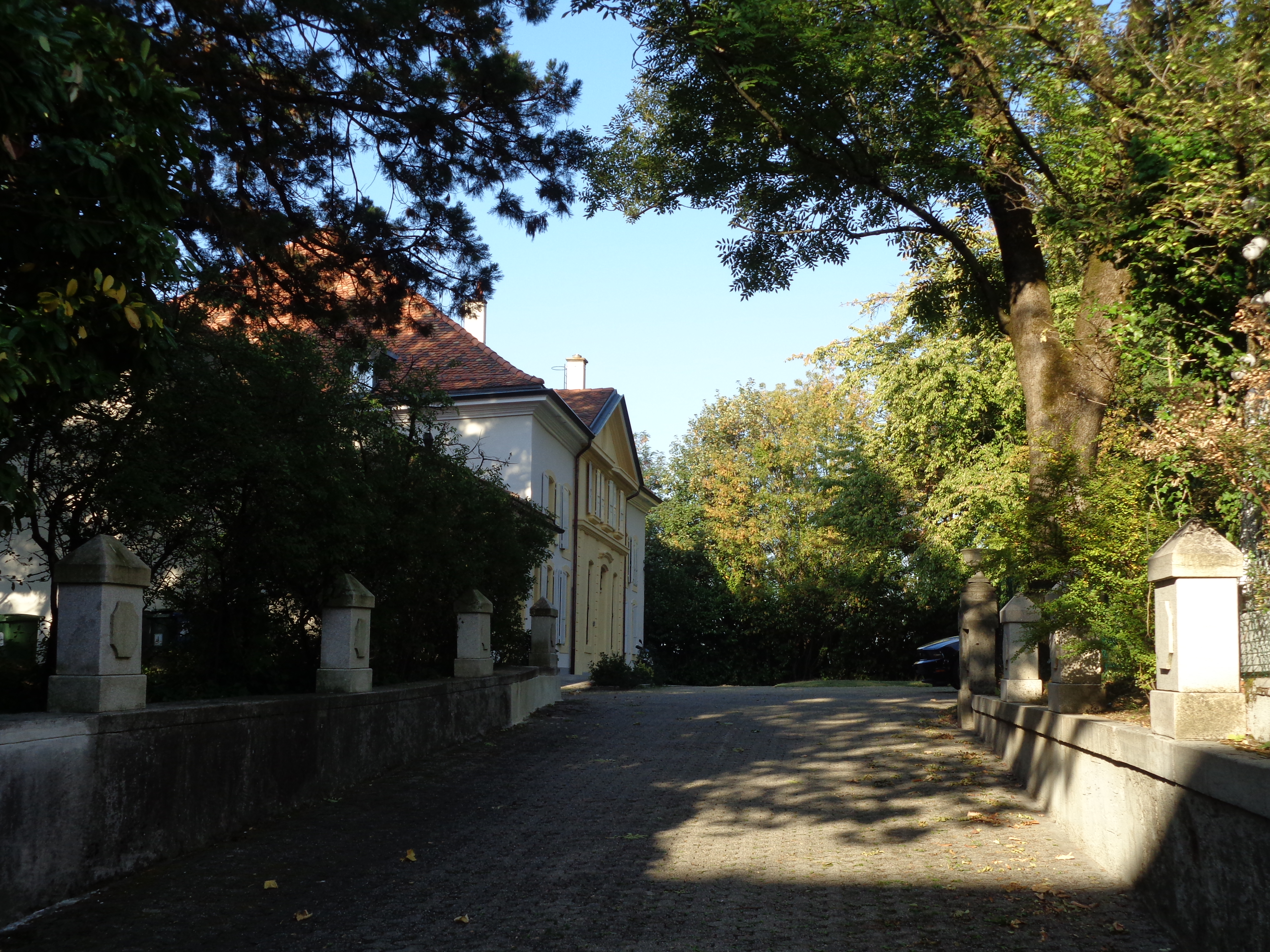 Sur Roche, country house with orangerie in Renens.